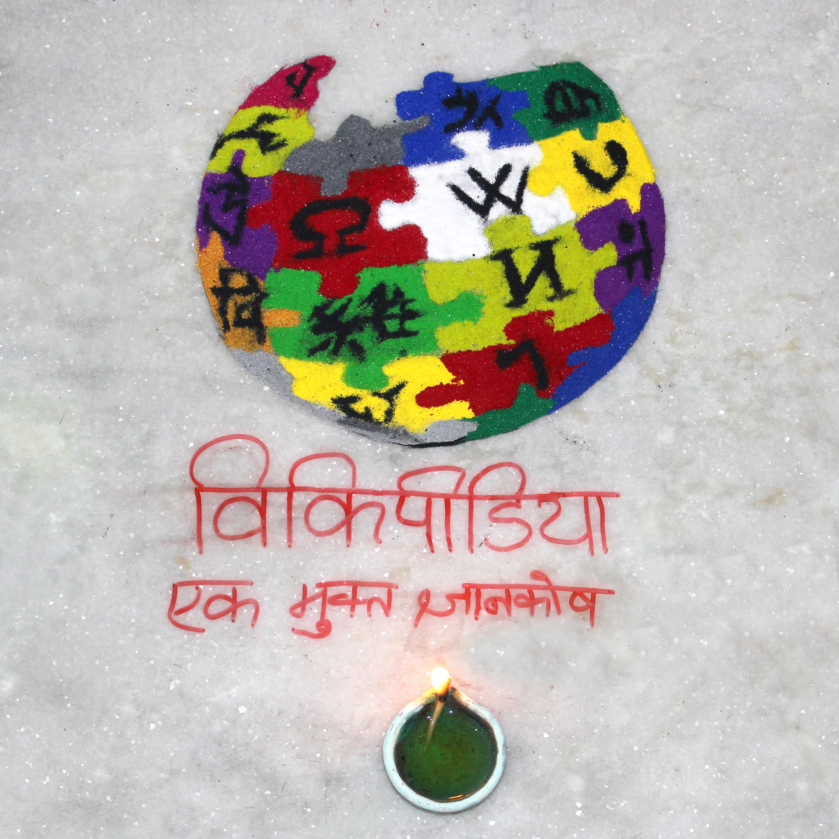 Wikipedia Rangoli by User:Shreya.Bhopal